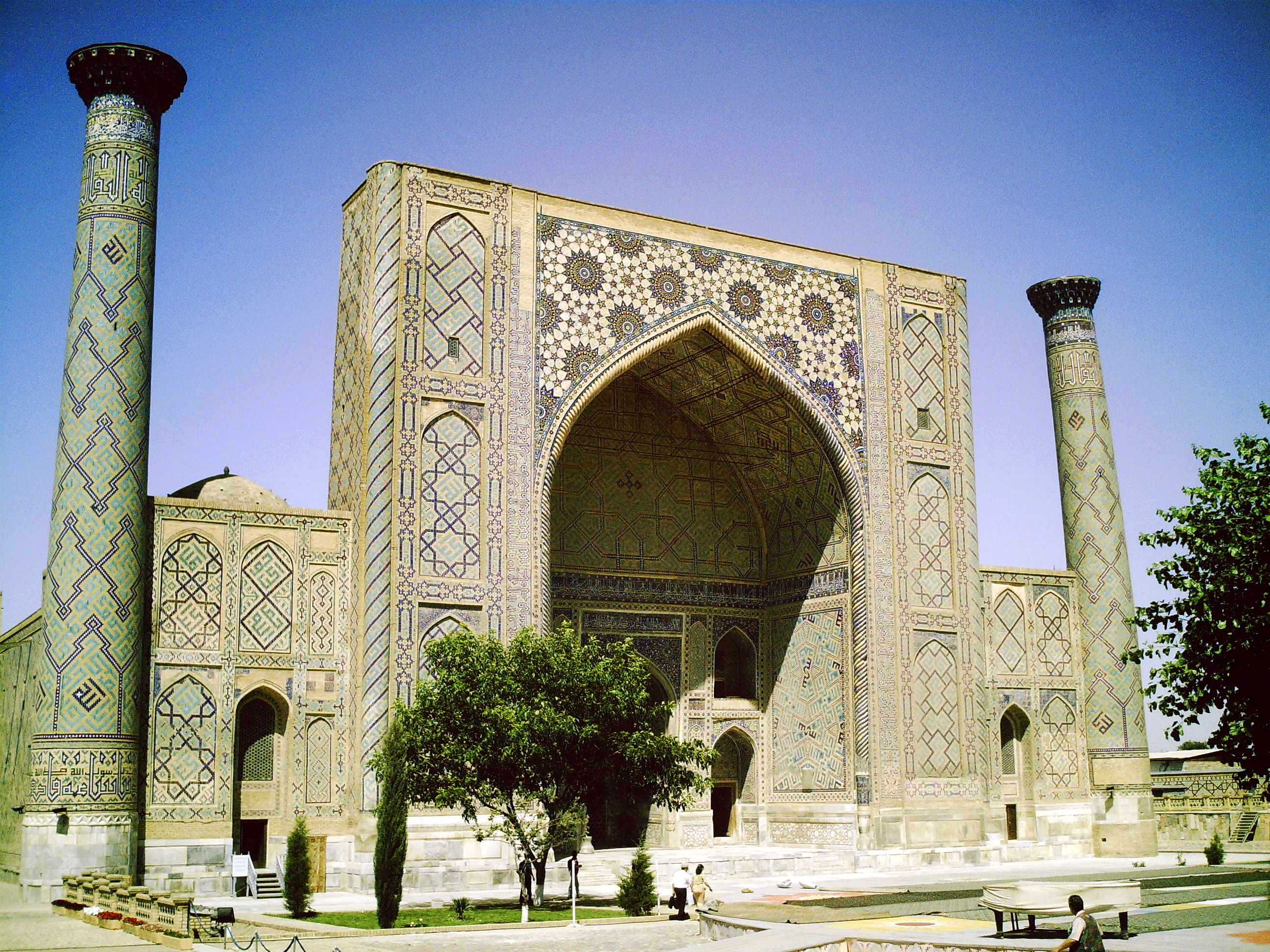 The Ulugbek Madrassa at the Rgistan, Samarkand, Uzbekistan